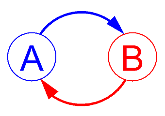 "...'feedback' exists between two parts when each affects the other.." (WR Ashby, "An introduction to cybernetics" 1956)